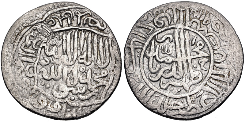 INDIA, Mughal Empire. Zahir al-Din Muhammad Babur. as ruler of Kabul, AH 909-937 / AD 1504-1530. AR Tanka – Shahruki (25mm, 4.60 g, 1h). Mintless type. Dated AH 913 (AD 1507/8). Rahman, p. 10; Album 2462.2; Baldwin’s 50, lot 945. VF, traces of double strike on obverse.